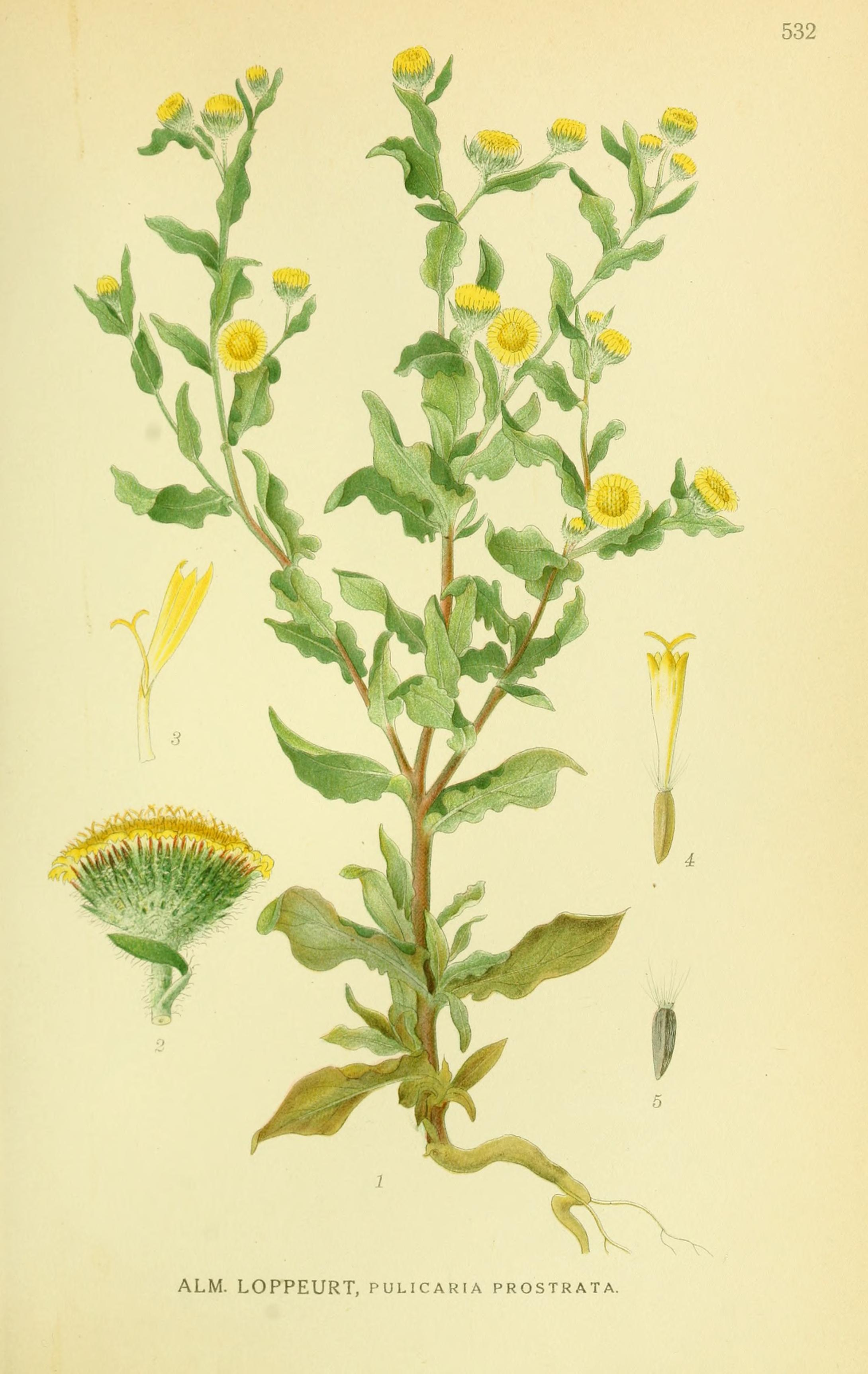 Title: Billeder af nordens flora Year: 1917 (1910s) Authors: Mentz, August, 1867-1944; Ostenfeld, C. H. (Carl Hansen), 1873-1931 Subjects: Plants; Plants; Plants Publisher: København, G. E. C. Gad's forlag Text Appearing Before Image: 532 Text Appearing After Image: ALM. LOPPEURT, pulicaria prostrata.